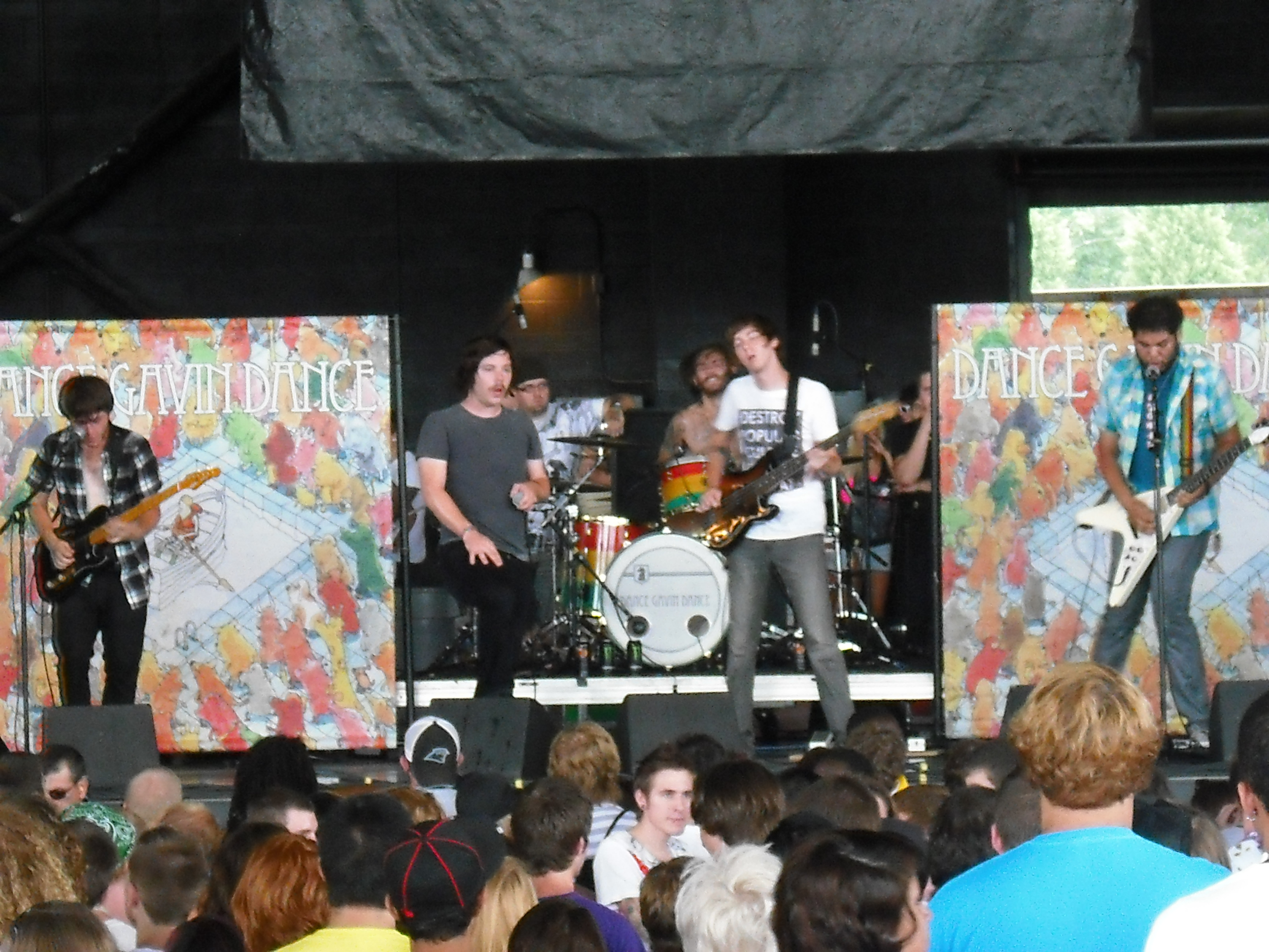 Dance Gavin Dance at Warped Tour in 2009